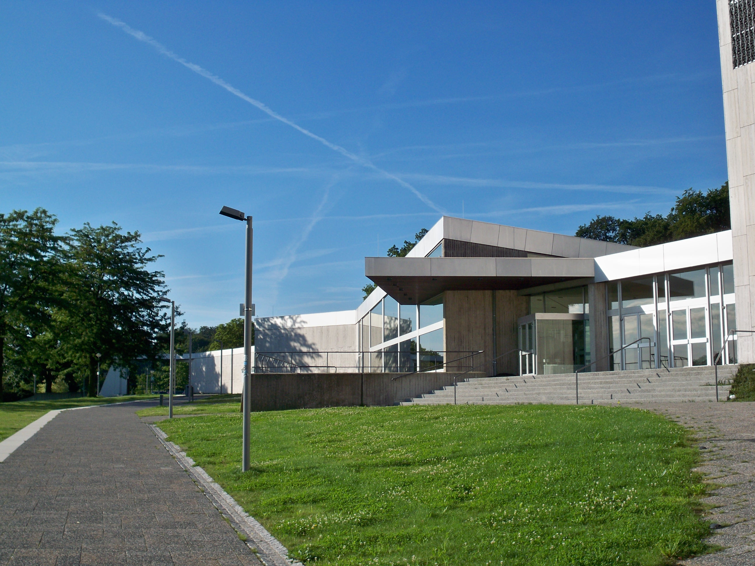 Wolfsburg, Lower Saxony, Scharoun-Theater, foyer